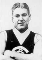 Laurie Nash in c. 1930 This image shows a photograph of Laurie Nash, taken c. 1930. Under Australian law, all photographs taken in Australia before 1955 are in the public domain. This image is in the public domain under both Australian copyright law and US copyright law. Accessed from Tasmanian Sporting Hall of Fame 2008